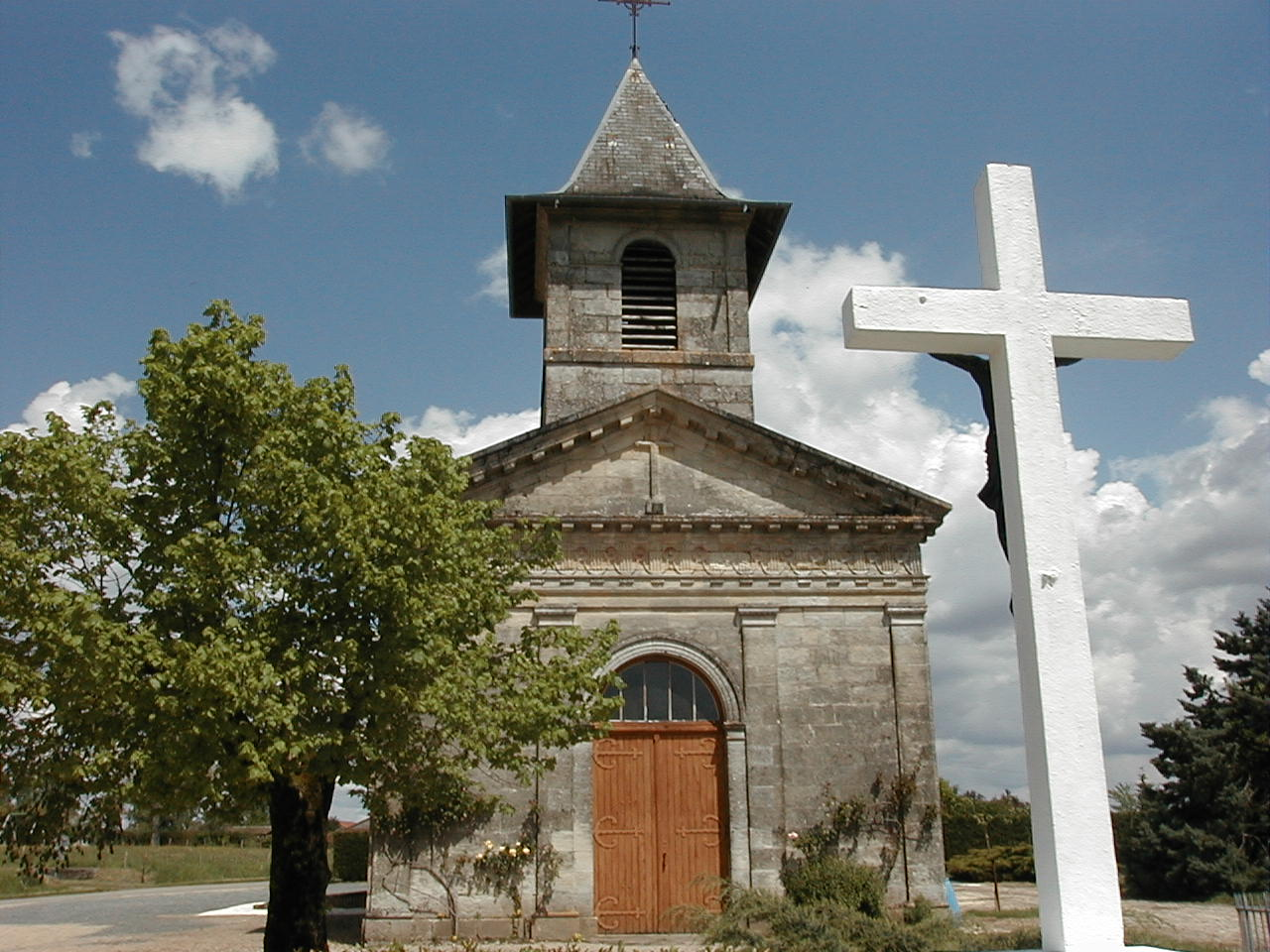 Saint Rémy sur Lidoire church